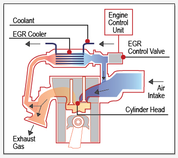 EGR Process